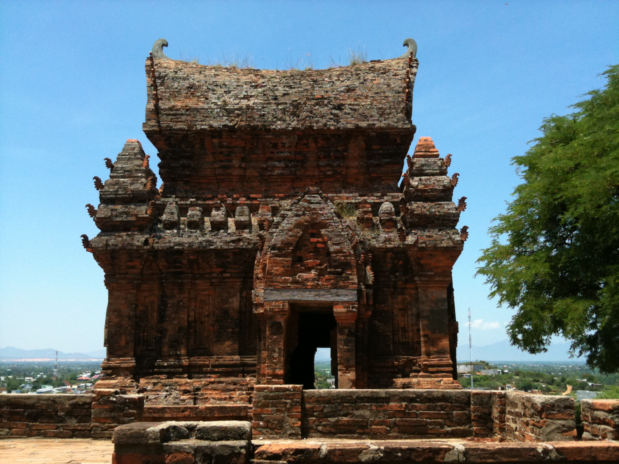 Details of Po Klong Garai, a Cham temple at Phan Rang-Thap Cham, Ninh Thuan Province, Vietnam.